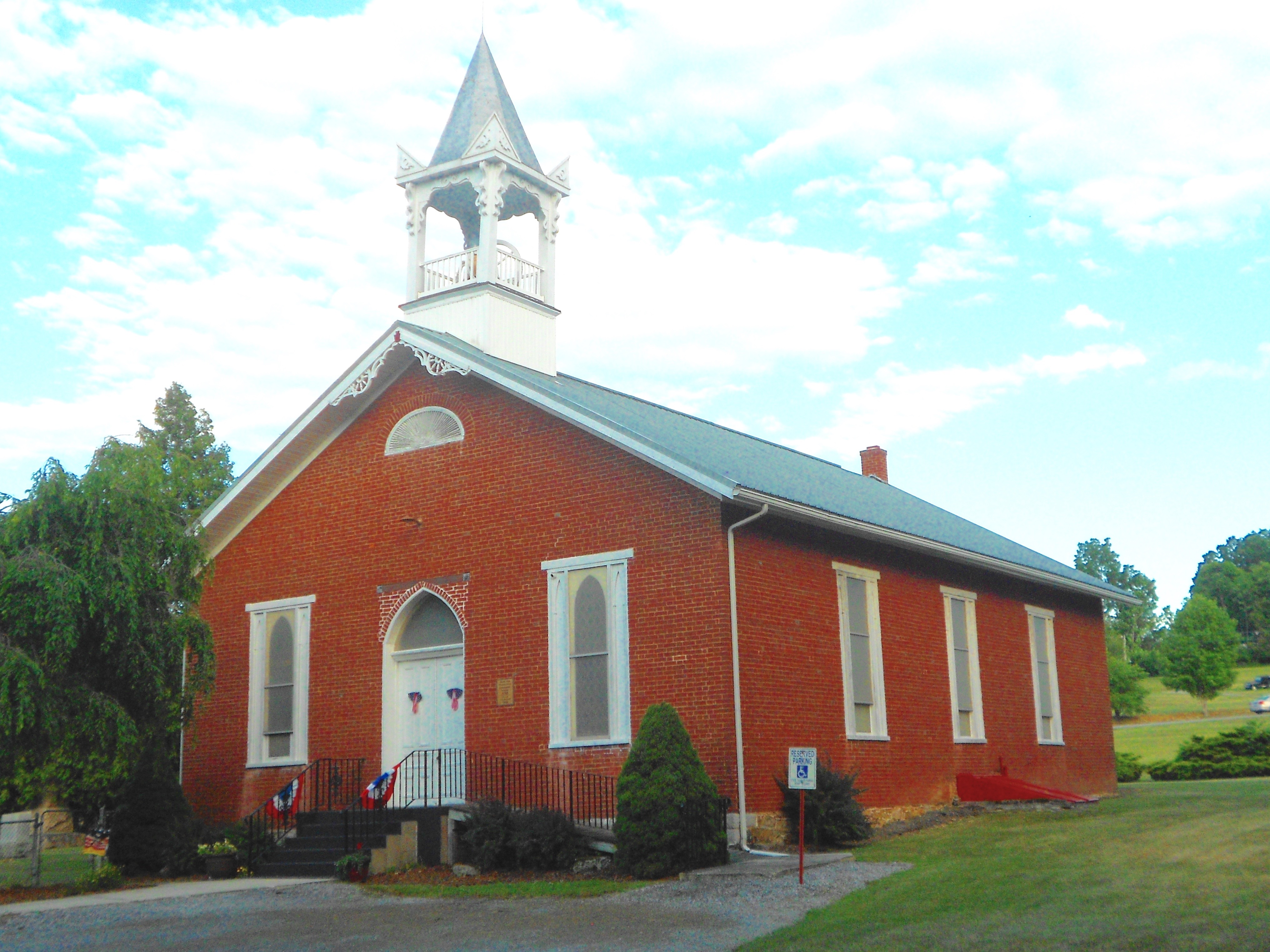 Presbyterian Church in Shade Gap, Pennsylvania in Huntingdon County